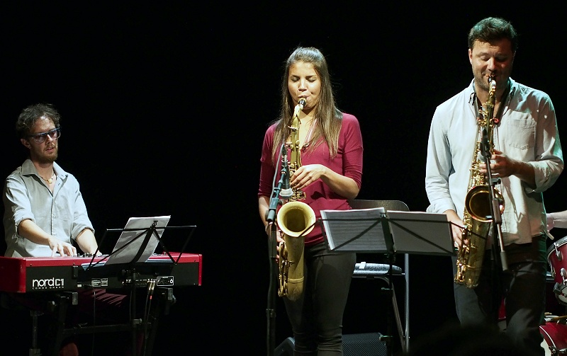 Jure Pukl with Marko Churnchetz (organ) and Melissa Aldana (saxophone) po150818 (35)-800